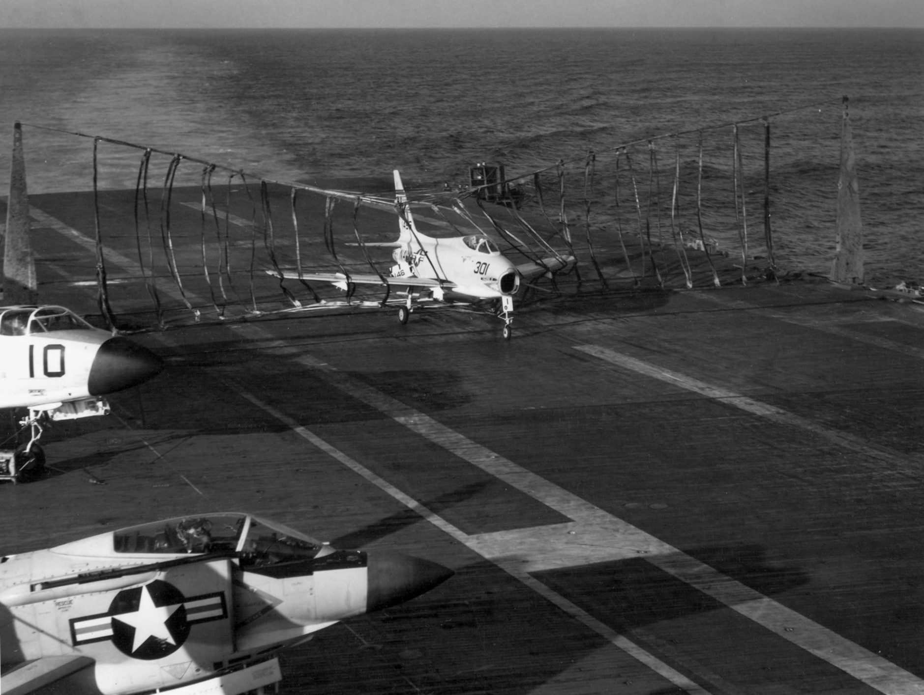 A U.S. Navy North American FJ-4B Fury from Attack Squadron VA-146 Blue Diamonds taking the barrier aboard the aircraft carrier USS Oriskany (CVA-34) on 21 November 1960. VA-146 was assigned to Carrier Air Group 14 (CVG-14) aboard the Oriskany for a deployment to the Western Pacific from 14 May to 15 December 1960.